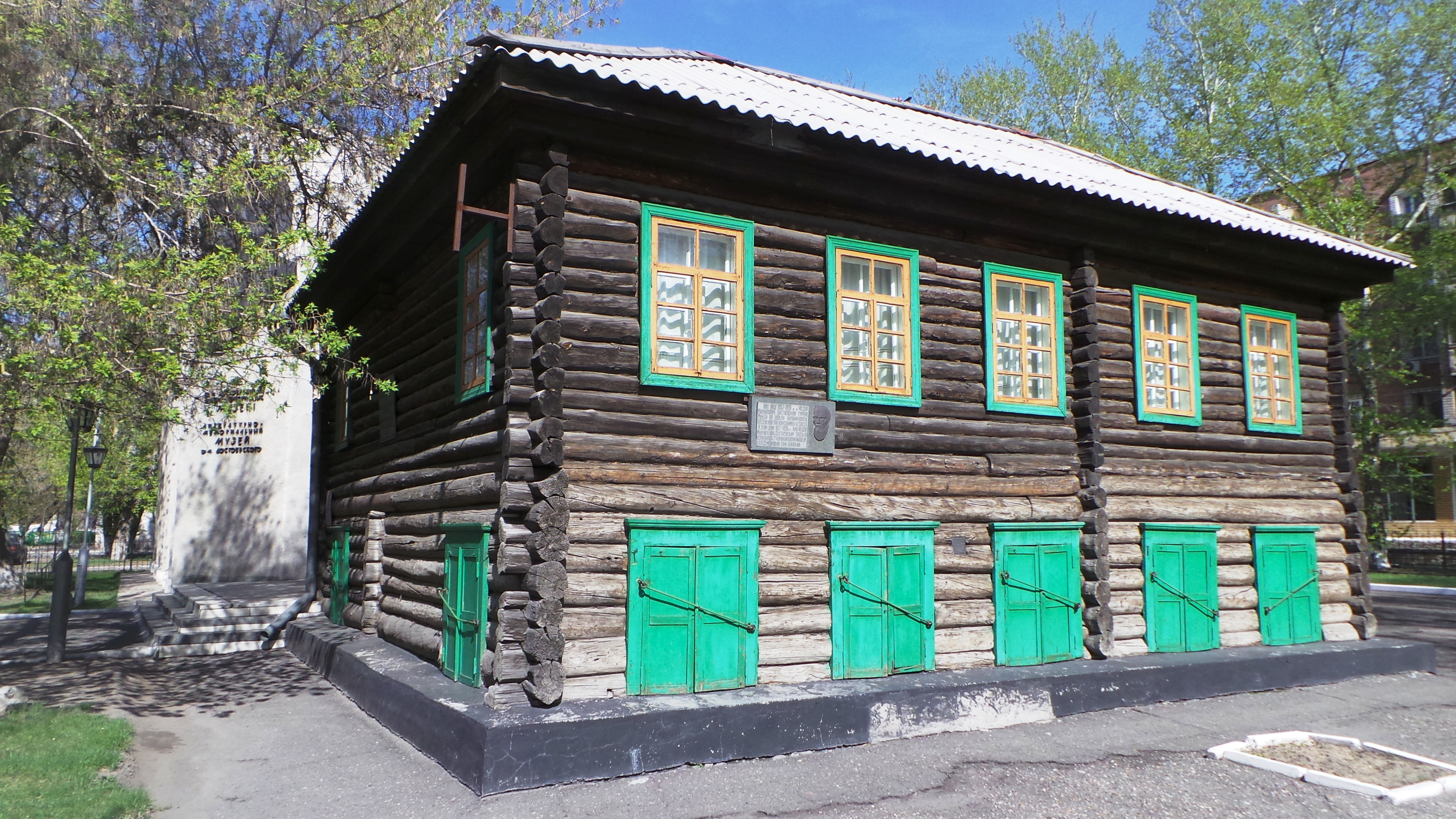 Dostoevsky House in Semey